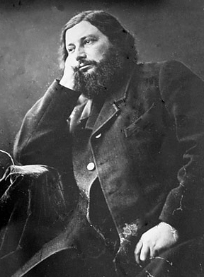 Portrait of Gustave Courbet (1819-1877)